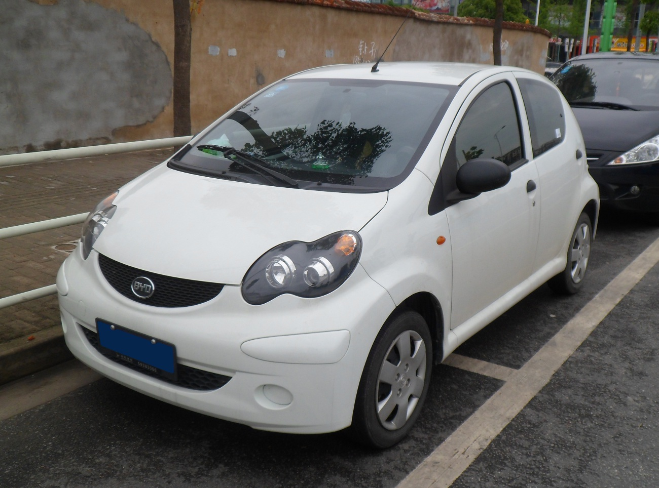 BYD F0 photographed in Shanghai, China.